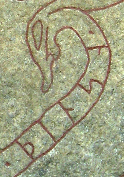 runic stone Upplands runinskrifter 873 last word dinsa